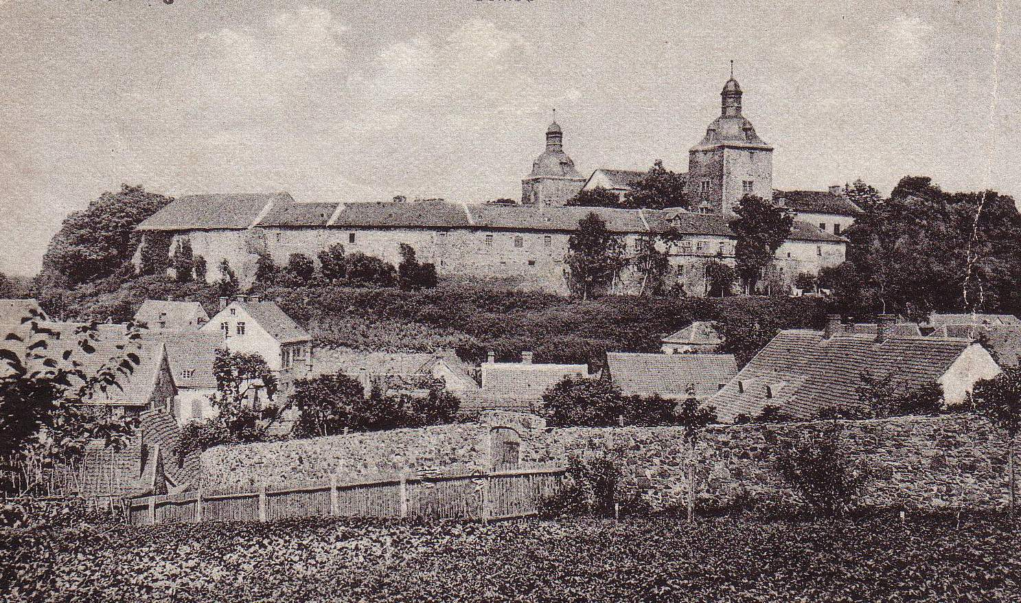 castle Hundisburg, distance view